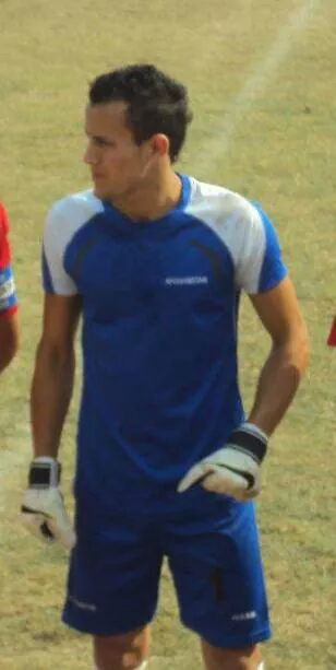 Kawesh Haidary, afghan goalkeeper